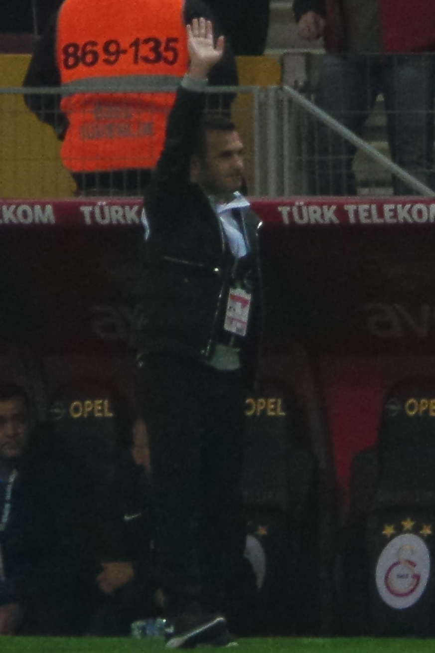 Okan Buruk